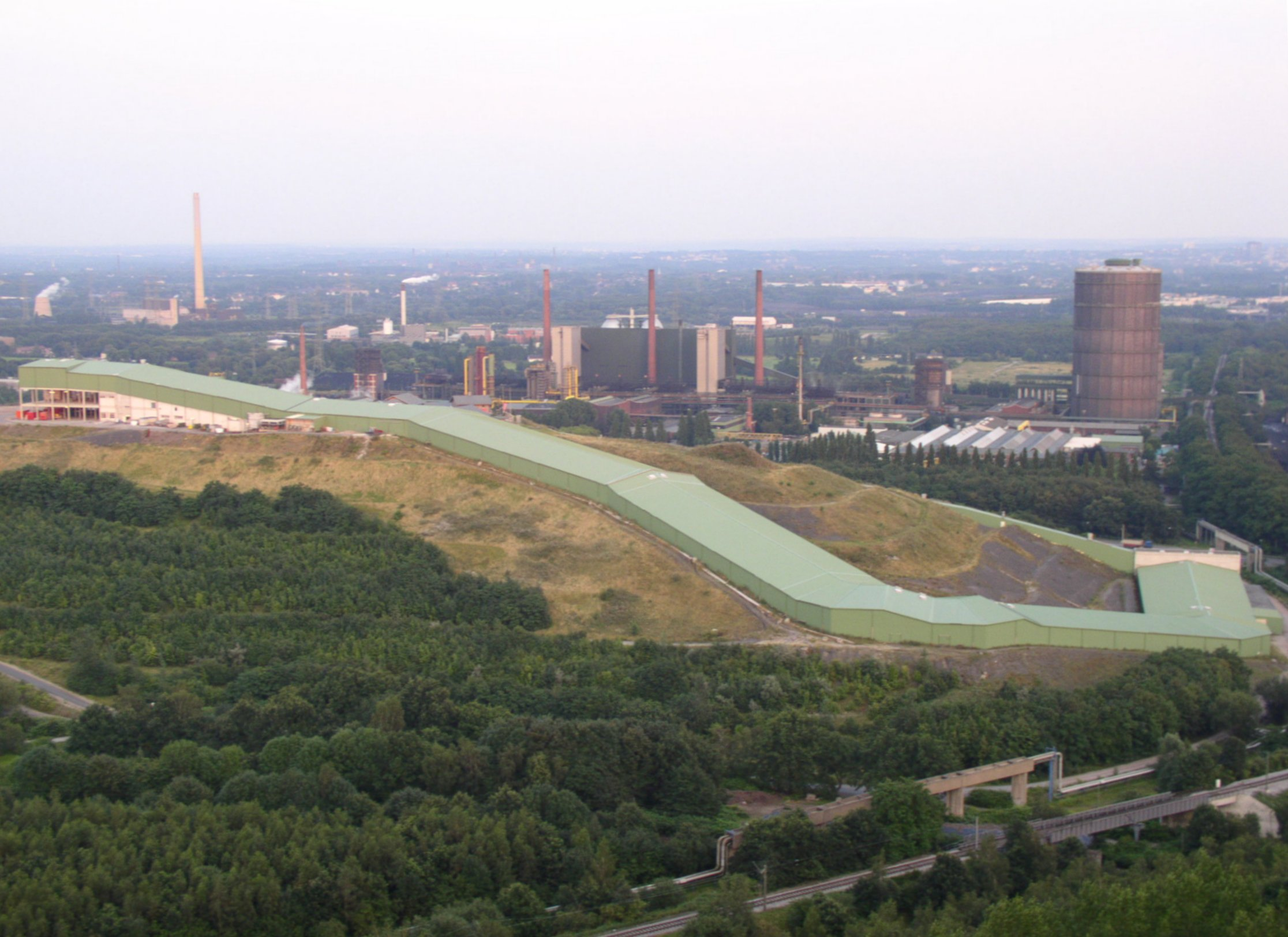 Description: Alpincenter Bottrop vom Tetraeder aus fotografiert Source: photo taken by me, August 2004 Photographer: Baikonur